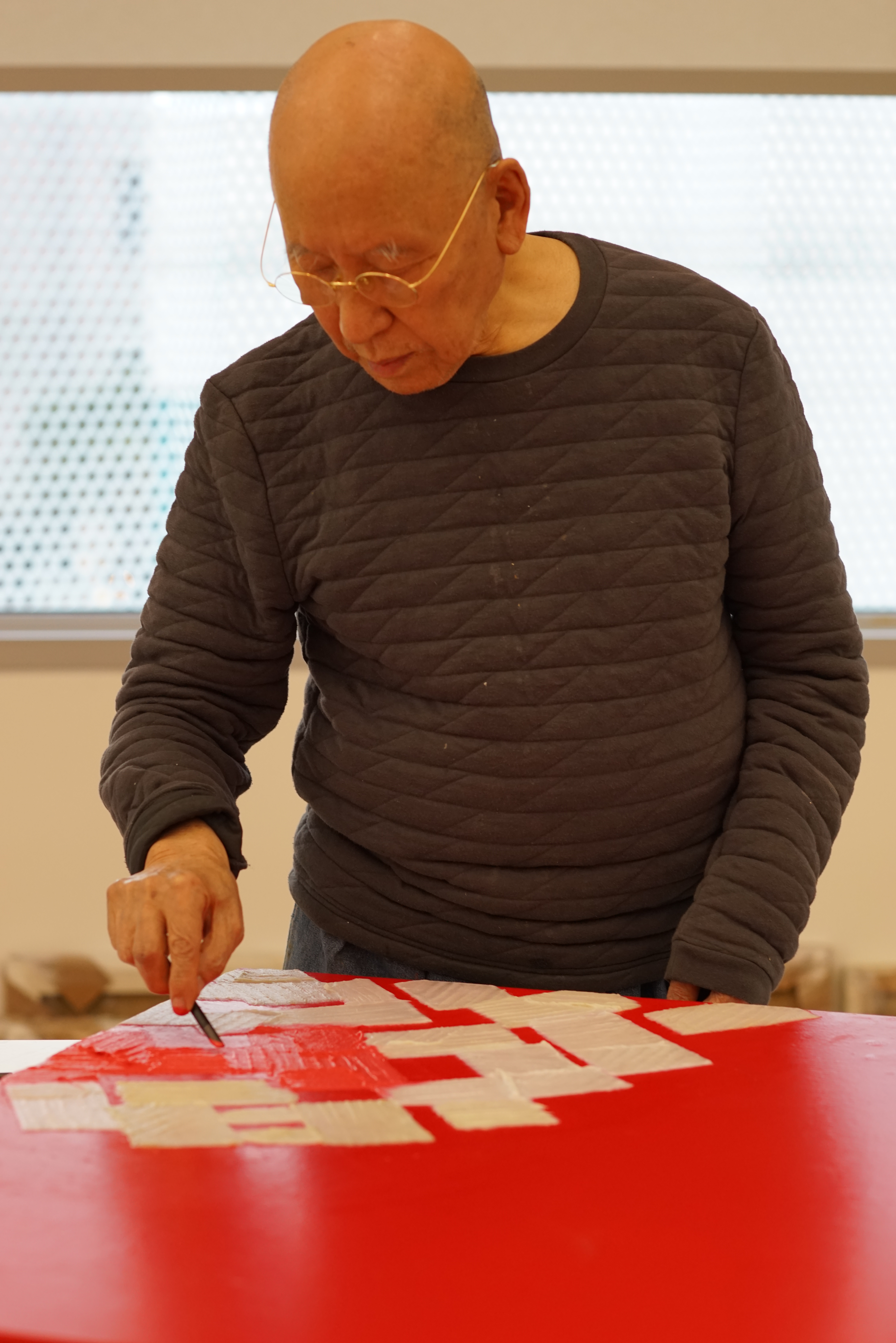 Park Seo-Bo, the Korean painter known for Ecriture or Dansaekhwa, is working alone at his new studio in Seoul in February 2019. He has turned 89 years old in Korean age. He suffers from chronic diseases with age but tries to feel alive again with pencil and brush. He is awaiting his second retrospective exhibition scheduled to open on May 17, 2019 at National Museum of Modern and Contemporary Art, Seoul, Korea.